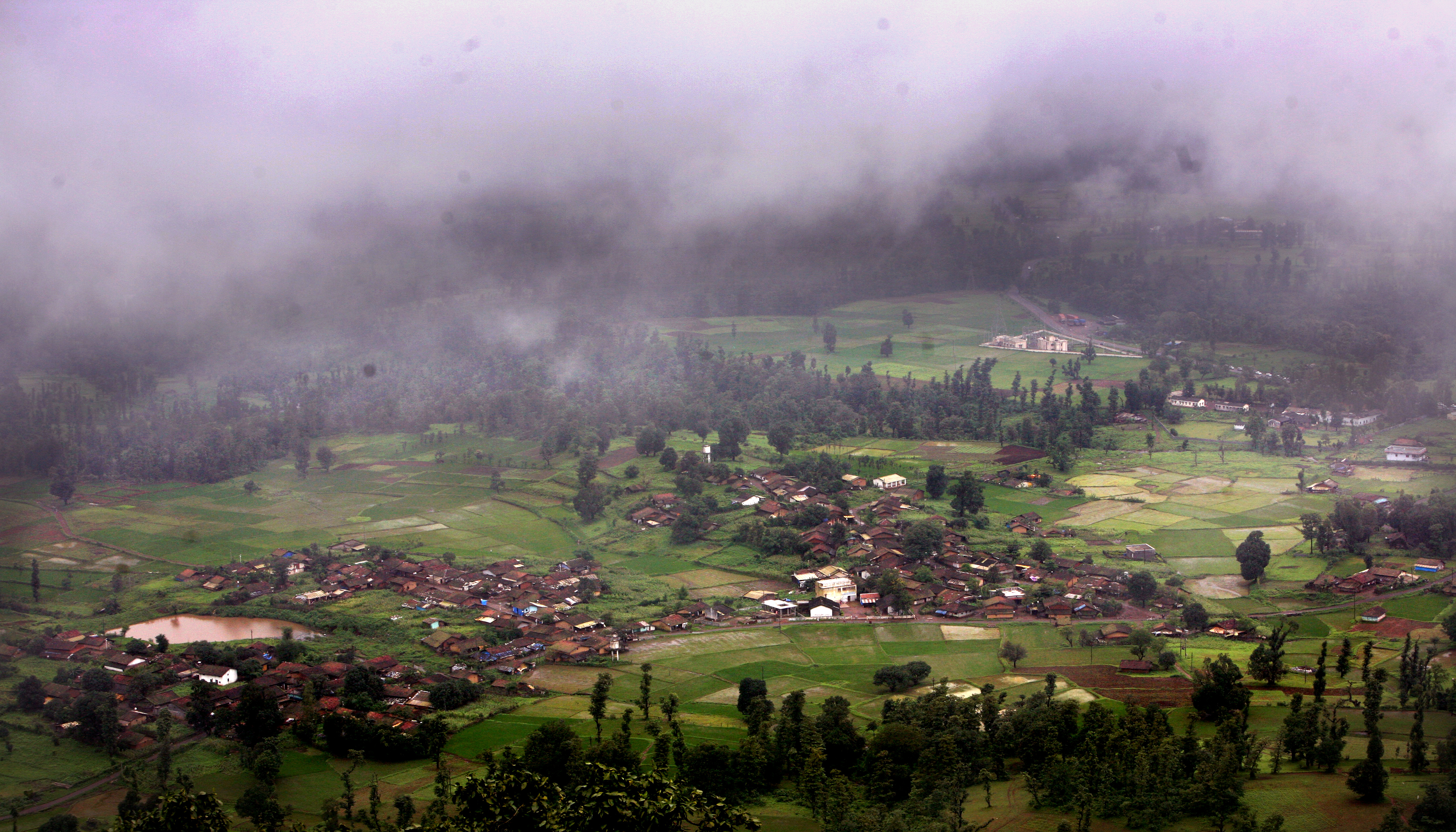 saputara hill view - Satpura Range one of the big forest Saputara in Gujarat